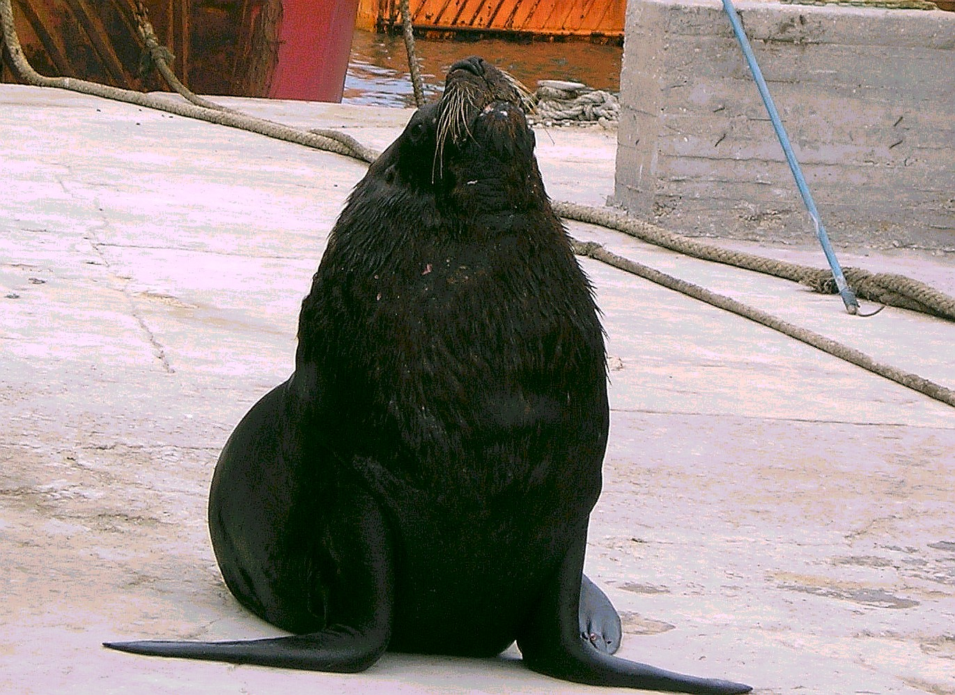 Sea lion in Mar del Plata's port.